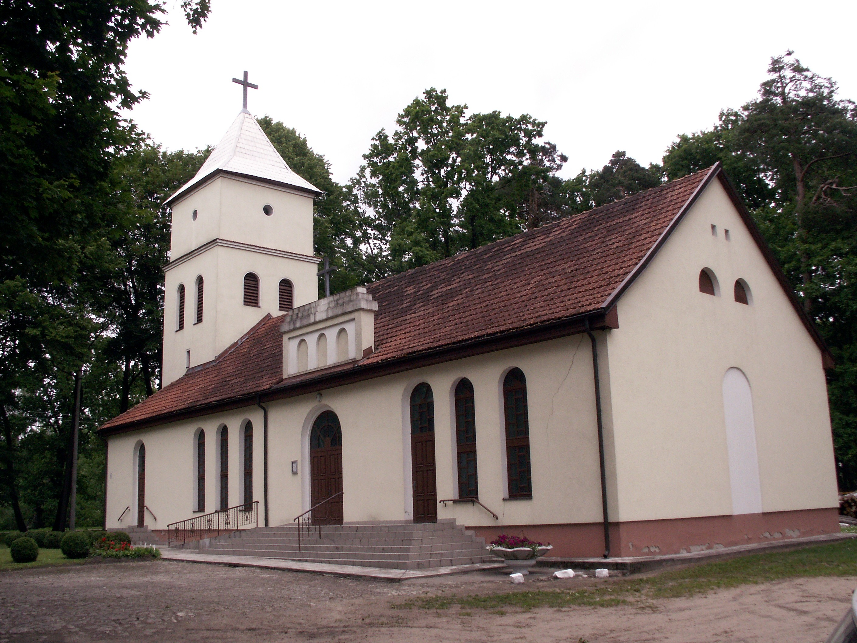 Lutheran churche in Pagėgiai, Pagėgiai district, Lithuania